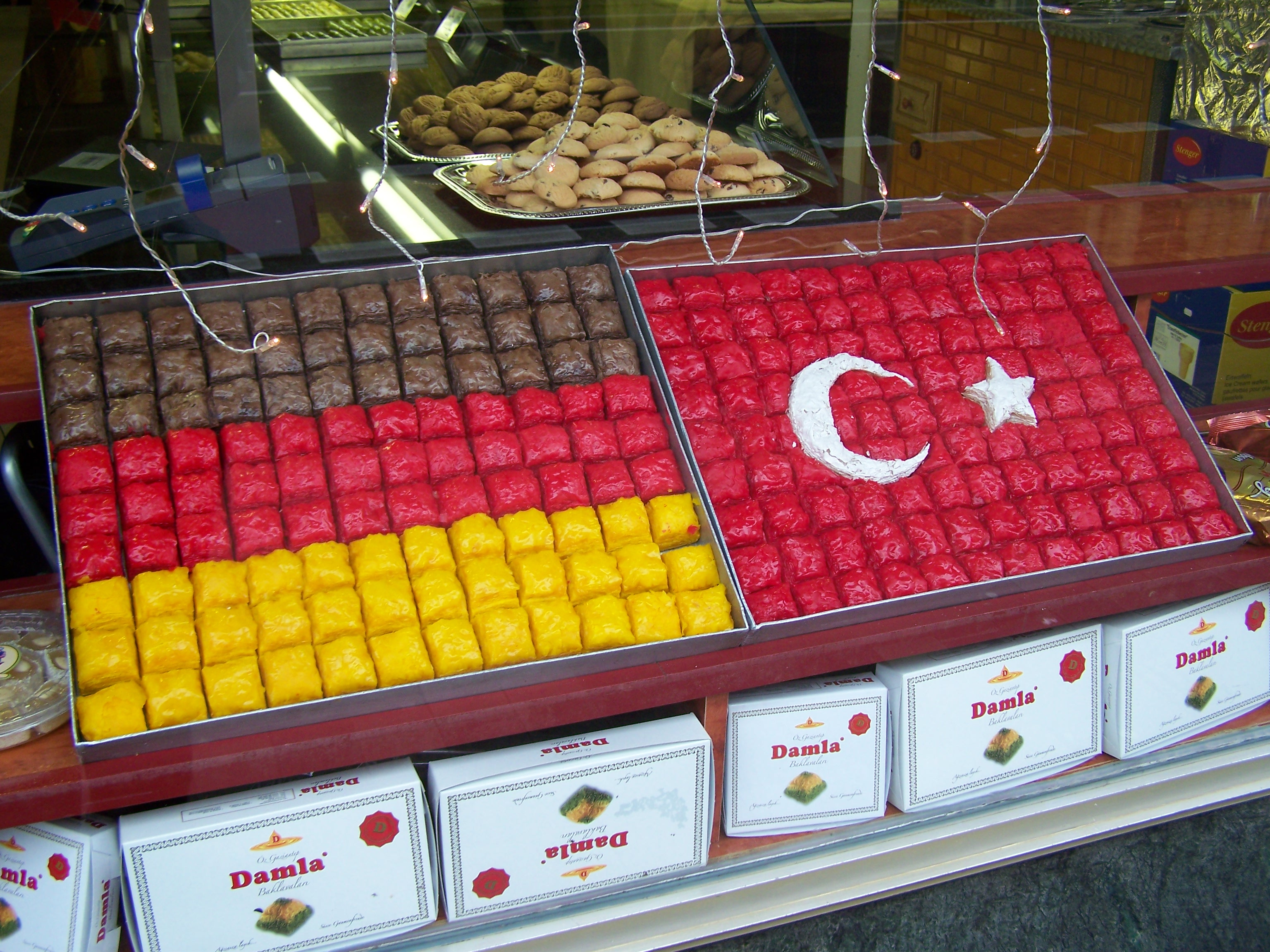 Baklava in the colors of the German and Turkish flags, in a shop window in Düsseldorf, Germany.